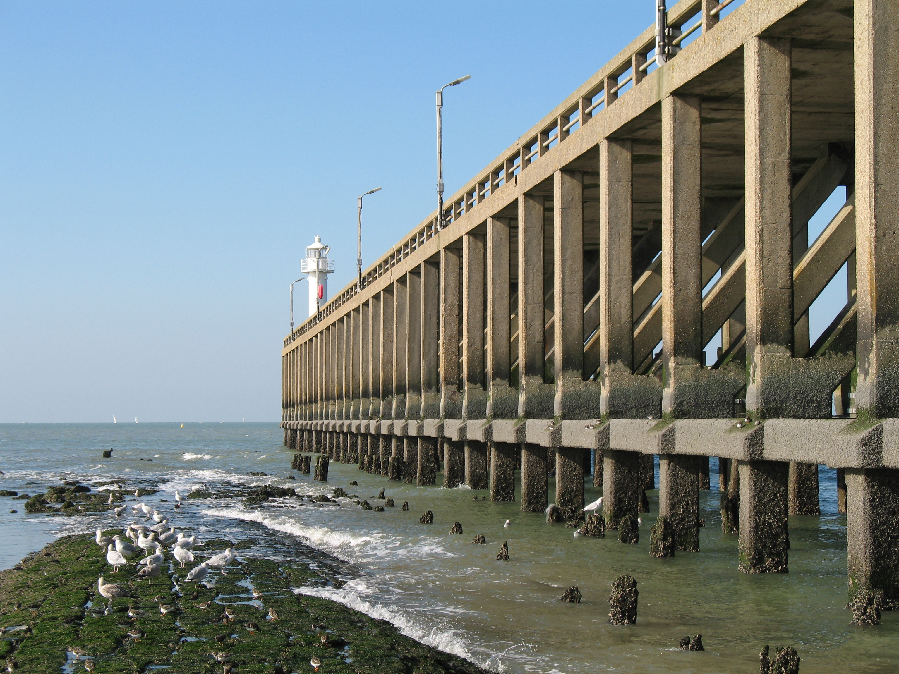 Blankenberge (province of West Flanders, Belgium): the western jetty